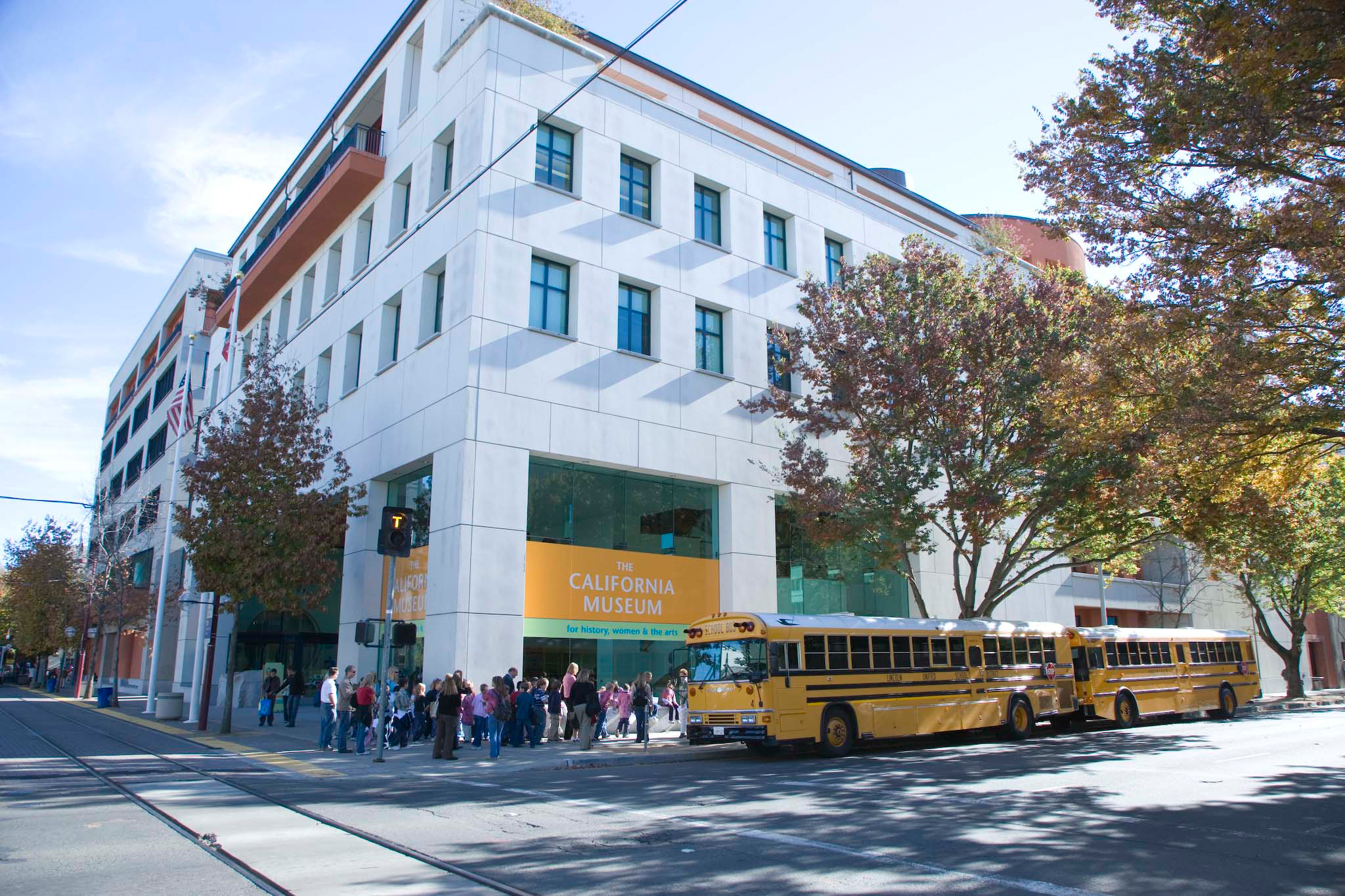 Copyright 2006, The California Museum for History, Women, and the Arts.